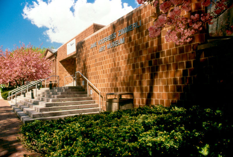 A photograph taken from the front of the Zimmerli Art Museum at Rutgers University by an employee of the museum.